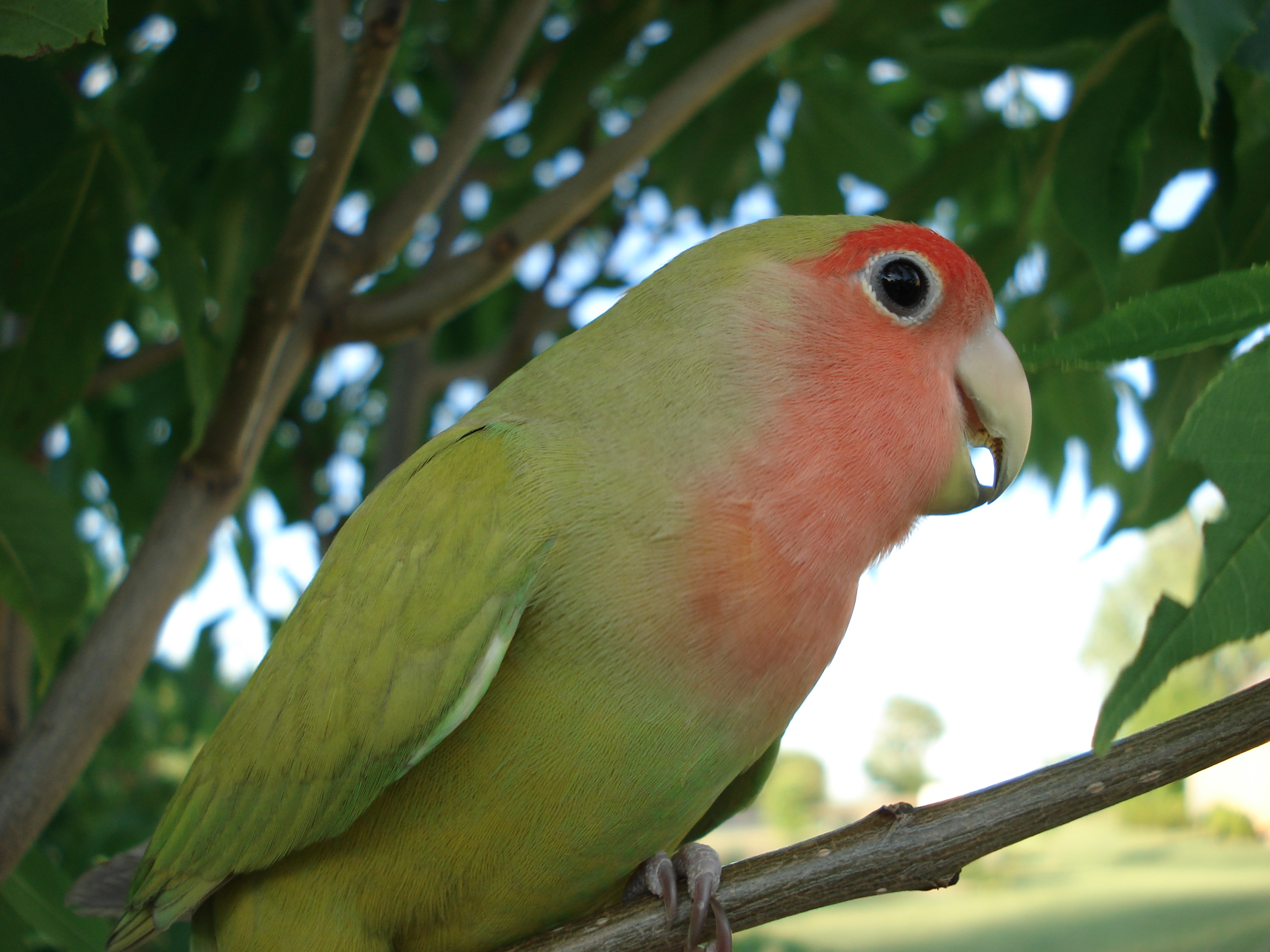 Image of a peachfaced lovebird (Agapornis roseicollis)